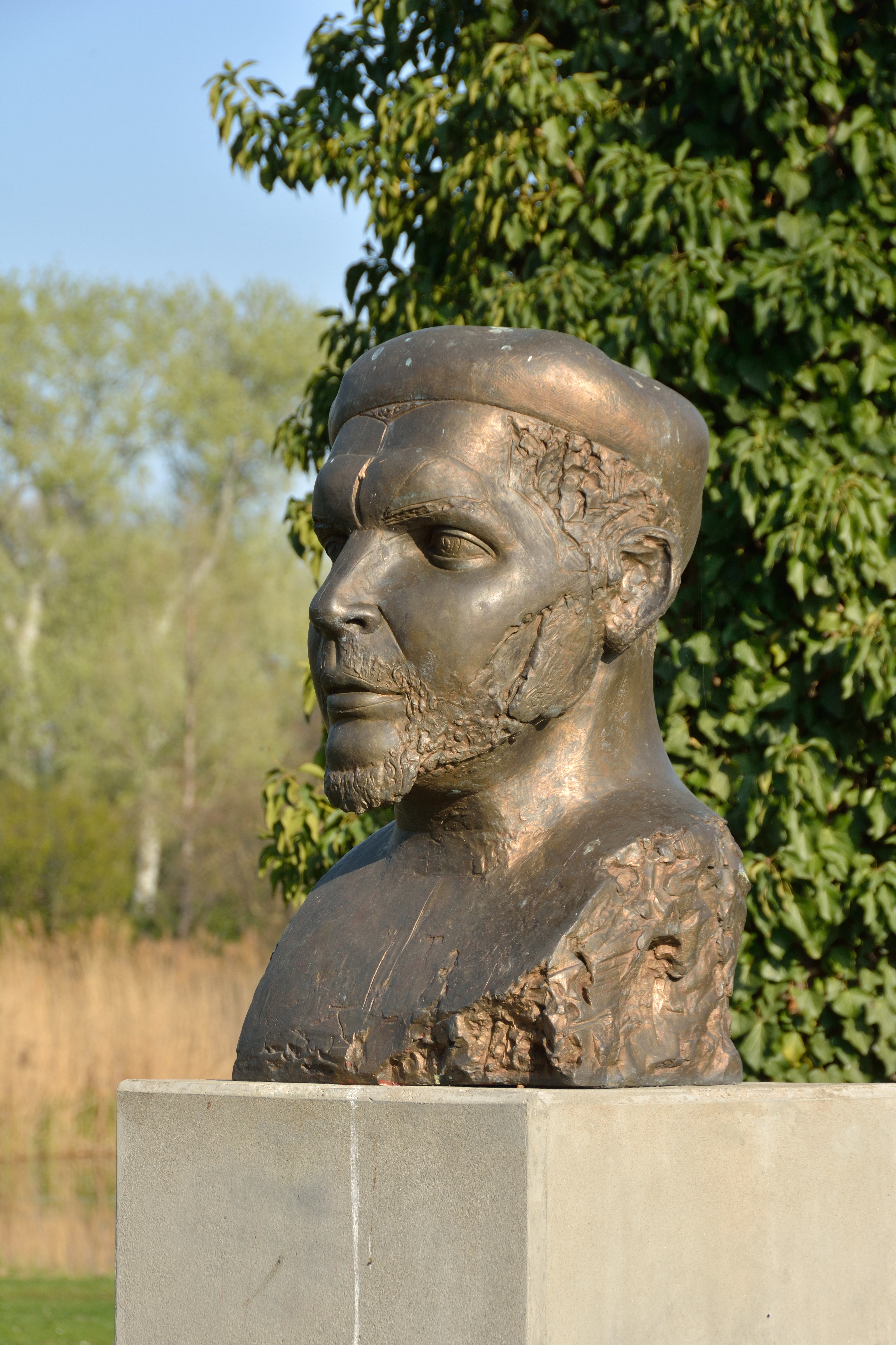 Ernesto Che Guevara monument, bronze bust by Gerda Fassel, Donaupark, 22nd district of Vienna